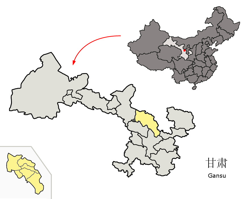 Location of Baiyin Prefecture (yellow) within Gansu province of China Map drawn in october 2007 using various sources, mainly : Gansu province administrative regions GIS data: 1:1M, County level, 1990 Gansu Counties map from